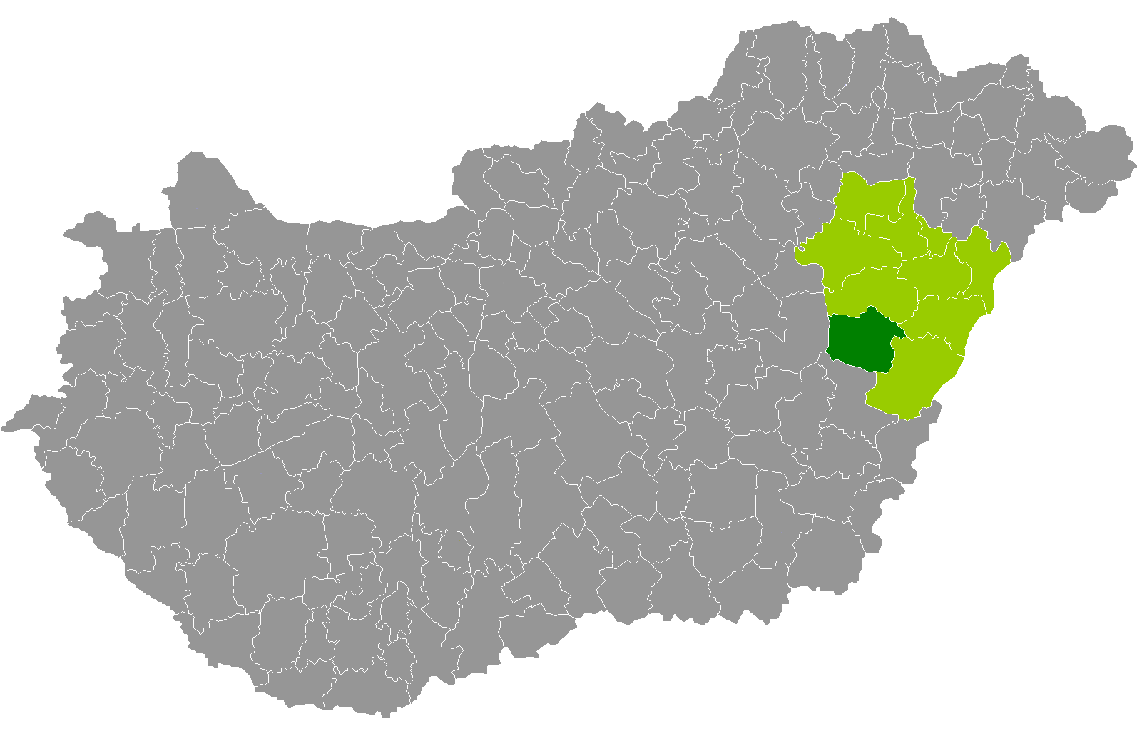 Location of Püspökladány District, Hajdú-Bihar, Hungary